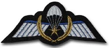 Para Wing operational Netherlands (old)